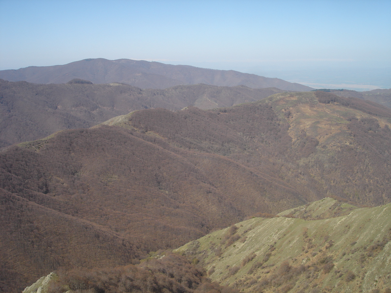 Plackovica mountain, Macedonia